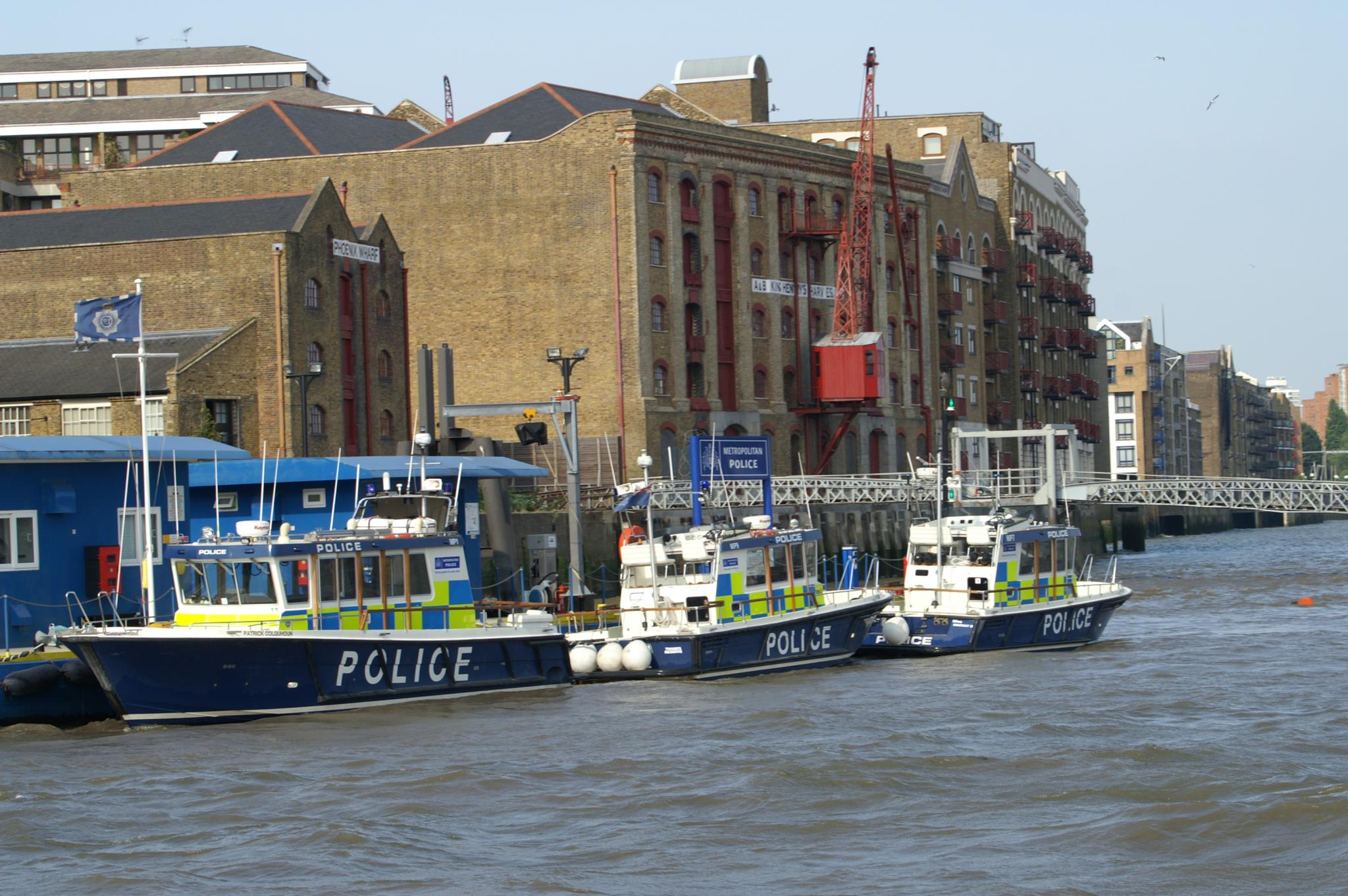 Police boats moored up at Wapping marine police station.